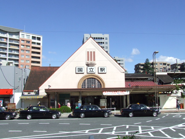 The original (1926) structure on the south side of Kunitachi Station in Kunitachi, Tokyo